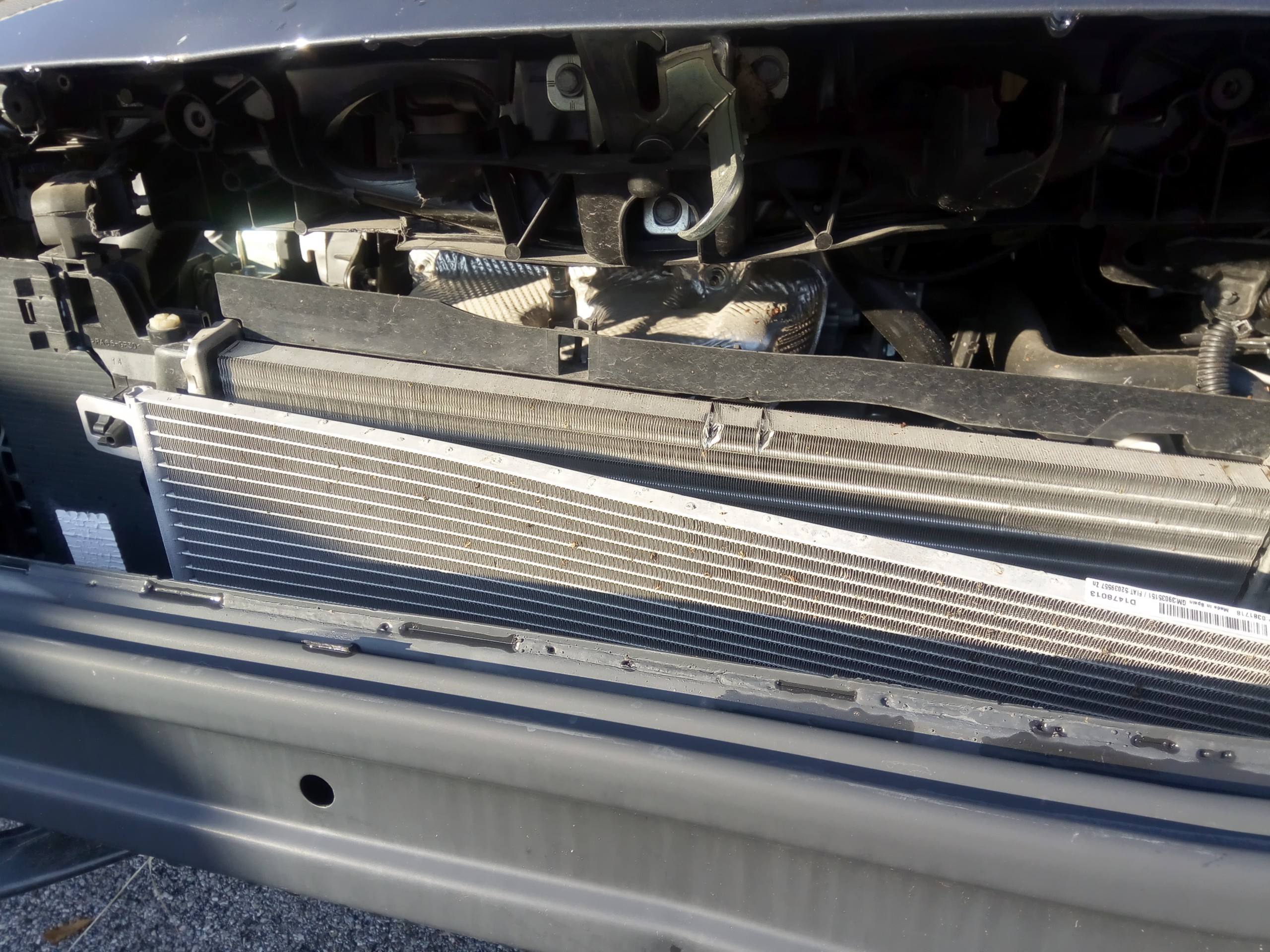 It is possible to see the radiators of a damaged car, in front of it there is the air-conditioning radiator, at the rear the engine cooling radiator.